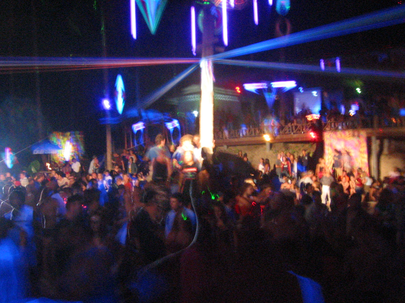 Half Moon Party